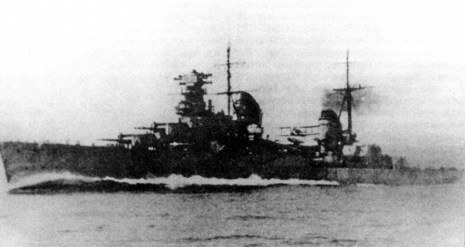 The Soviet cruiser Molotov, 1940-1941.